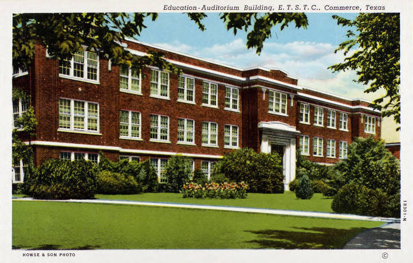 Postcard view of the Education-Auditorium Building of East Texas State Teachers College.